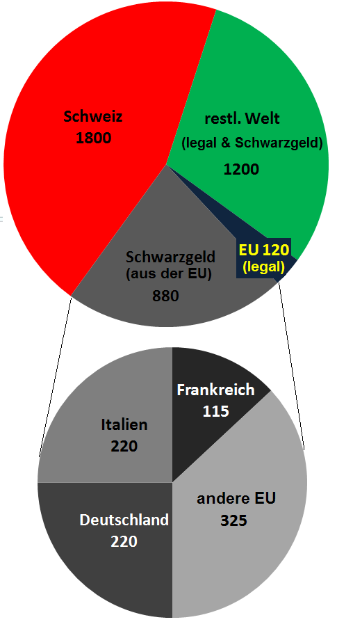 Parts of Swiss Capital Market in German